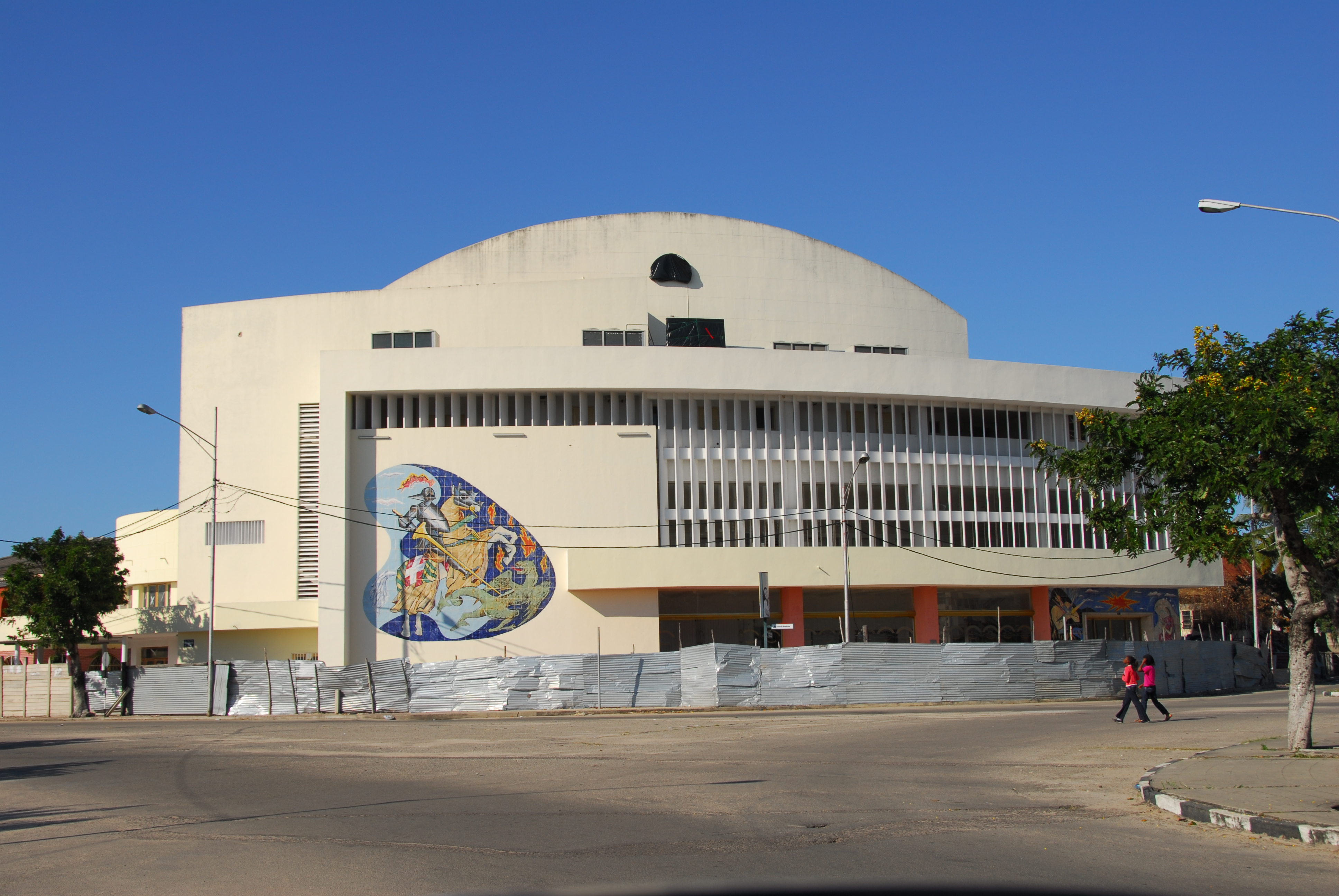 São Jorge Theatre, Beira, Mozambique